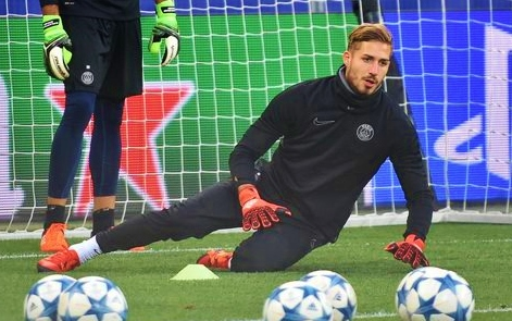 Kevin Trapp